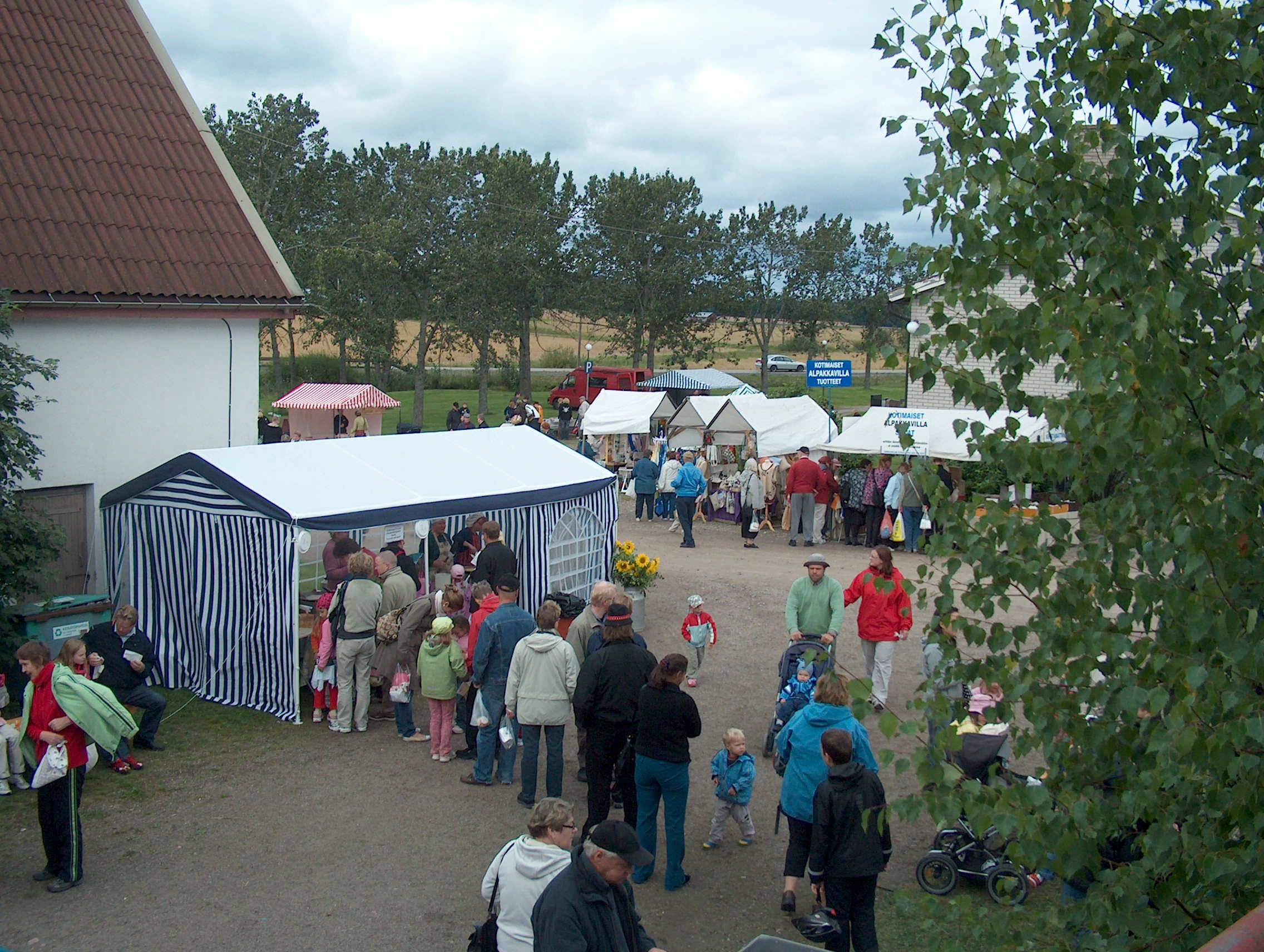 Harvest Market at Anttila Farm in Tuusula, Finland 2008